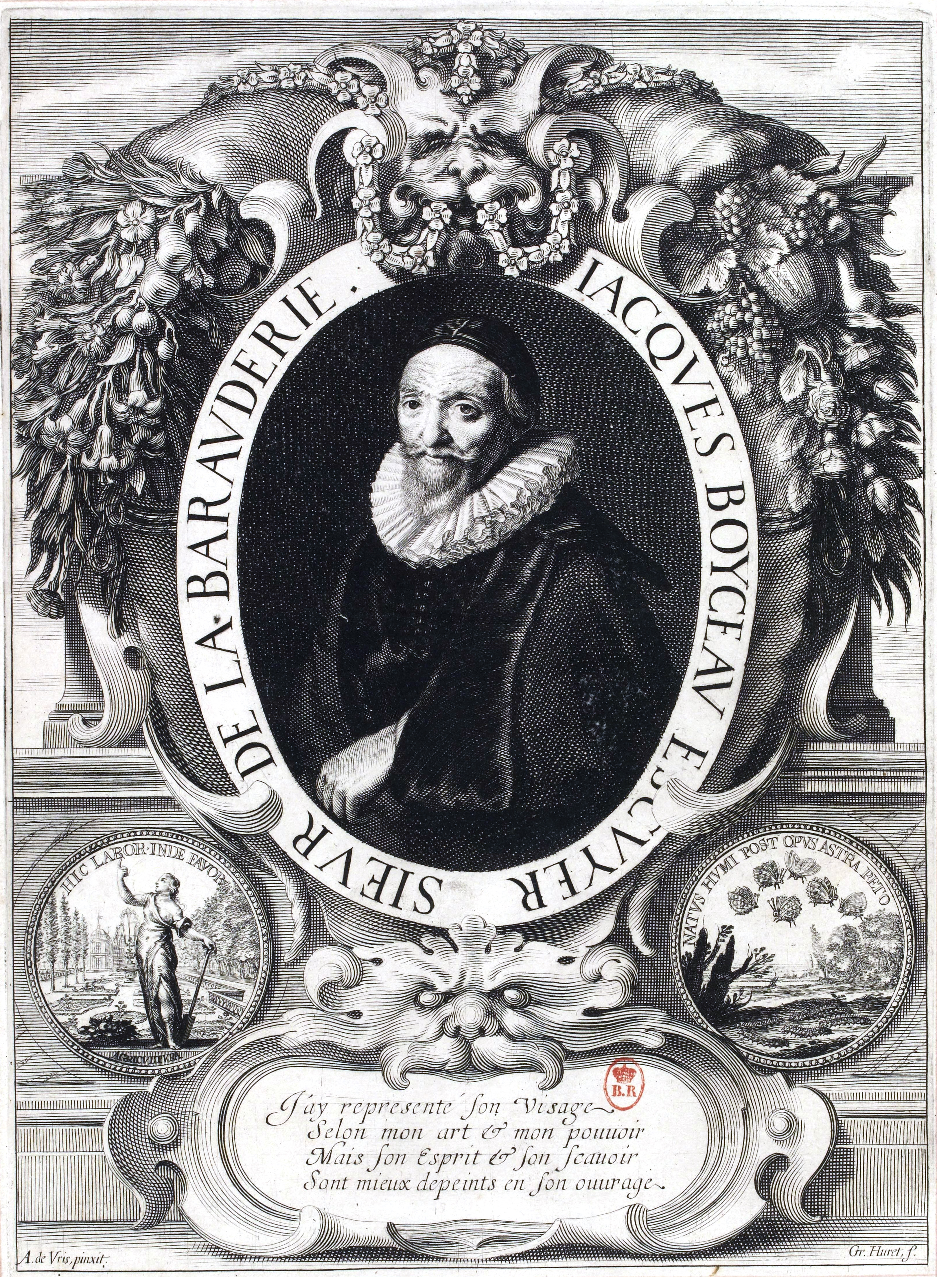 Portrait of Jacques Boyceau, French garden designer, from his Traité du jardinage..., first edition published by Michael Van Lochom